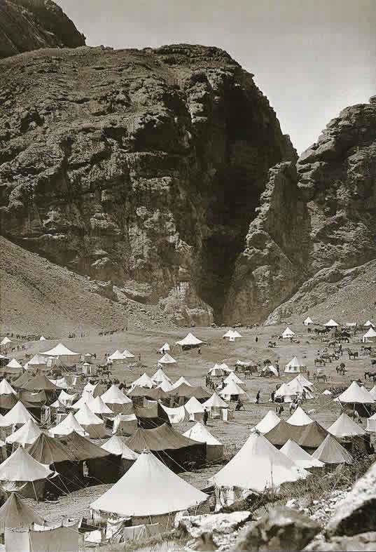 Antoin sevruguin's historical photographs